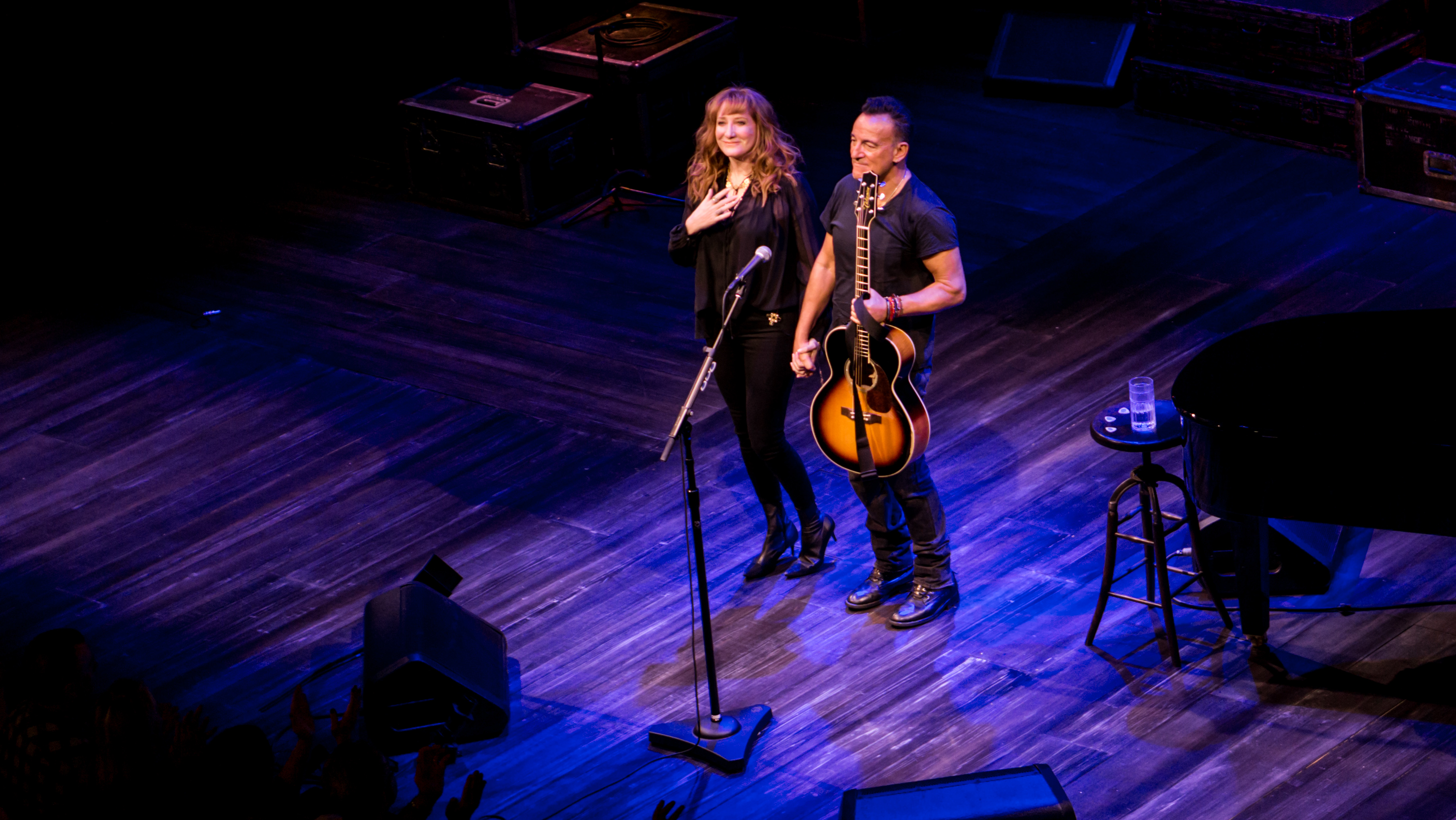 SpringsteenBroadWay021117-43